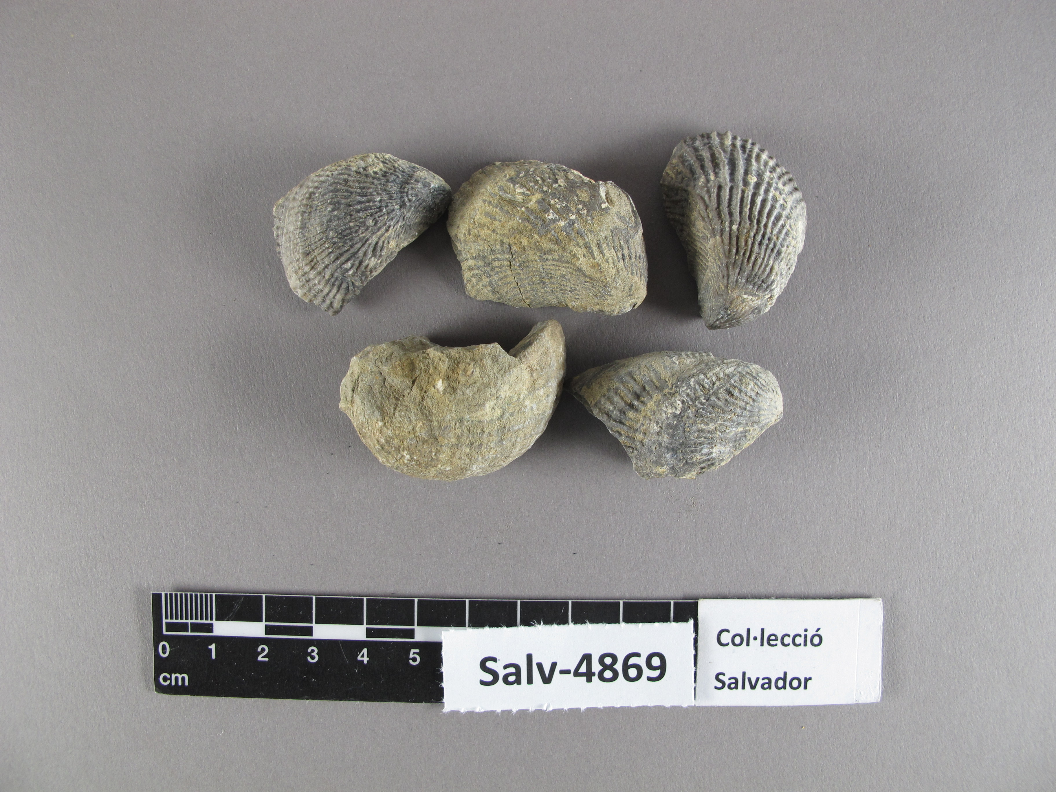 Imatge d'inventari- Fossil